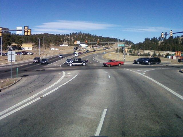 Evergreen Parkway west bound(north bound) at El Rancho, Colorado.